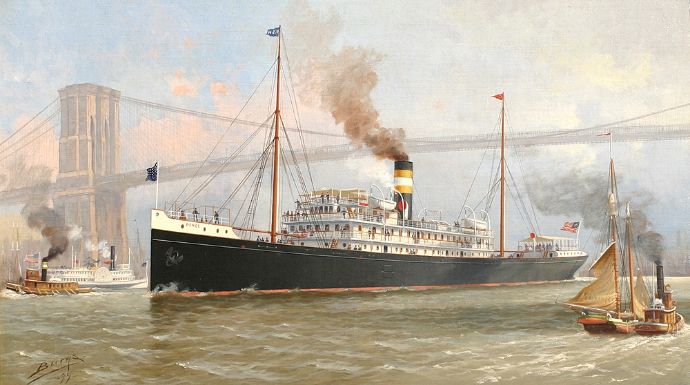 SS Ponce entering New York Harbor (Commemorating Marconi's Radio Success), by Milton J. Burns